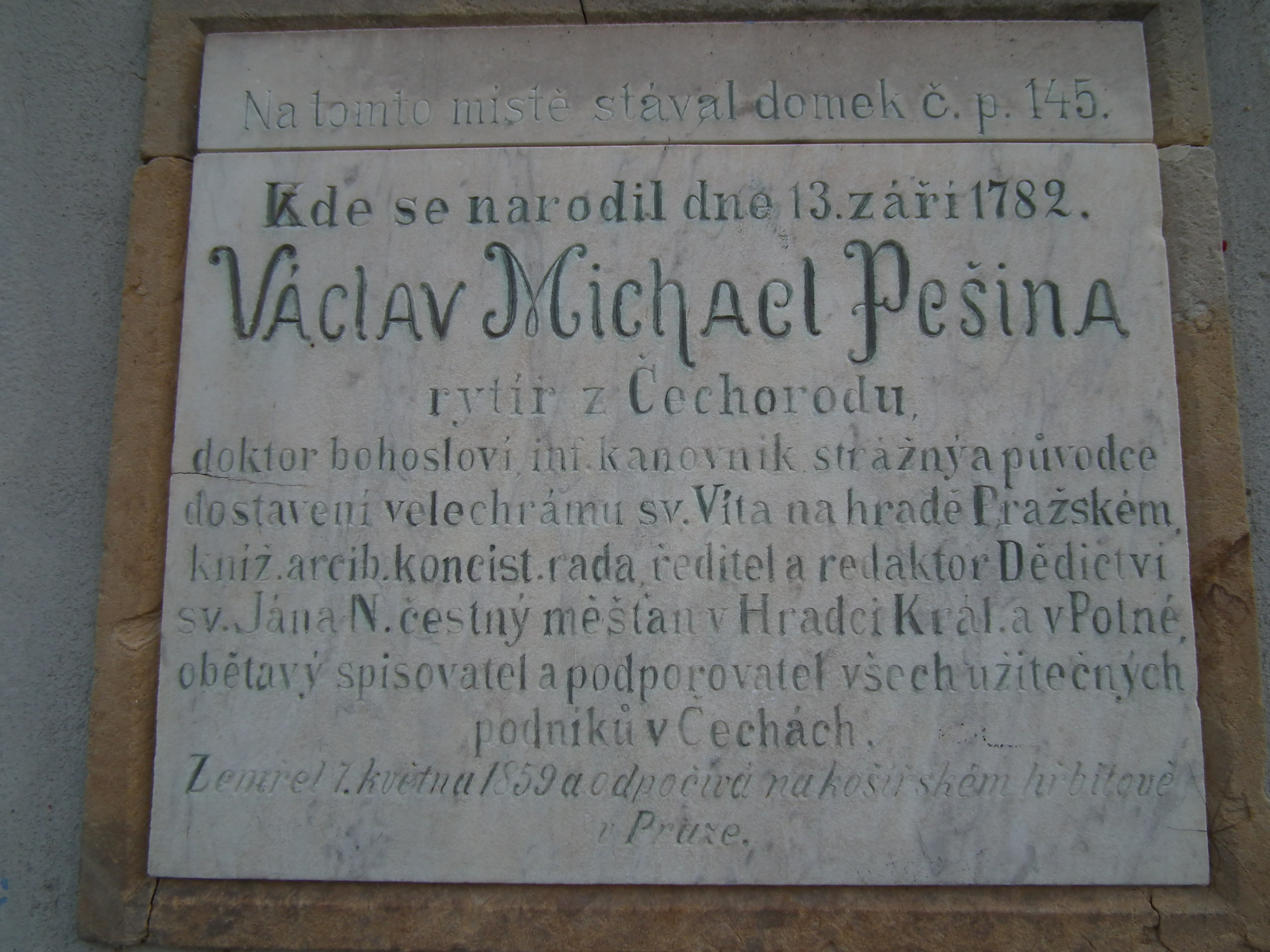 A commemorative plaque to Václav Michal Pešina in Nový Hradec Králové. (Hradec Králové)